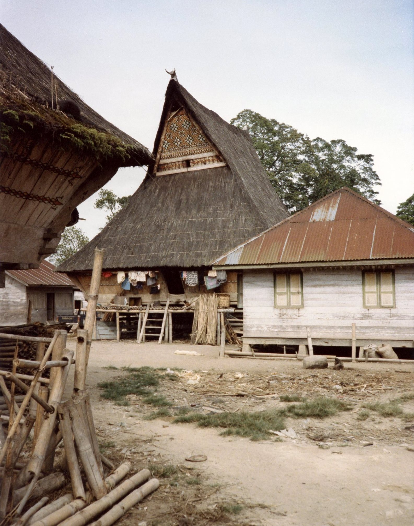 Karo-Batak house in village of Lingga, North Sumatra, Indonesia